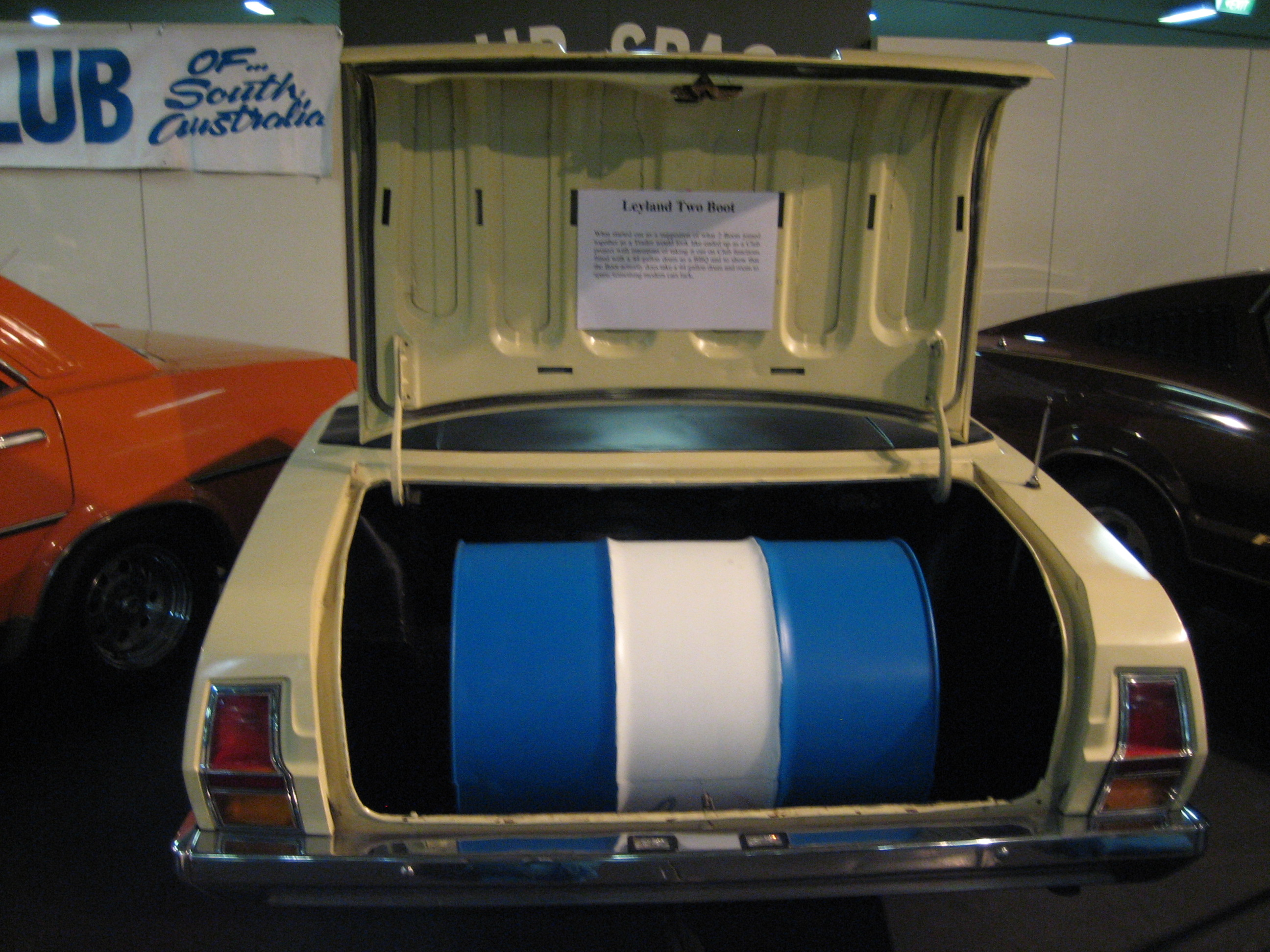 Rear view of Leyland P76 with 44 gallon drum in the boot.